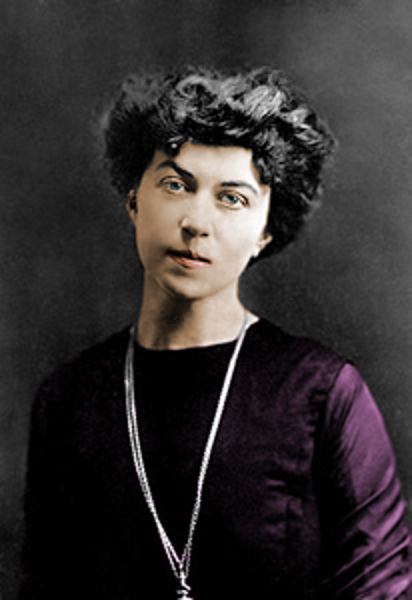 Alexandra Kollontai colorized photo.